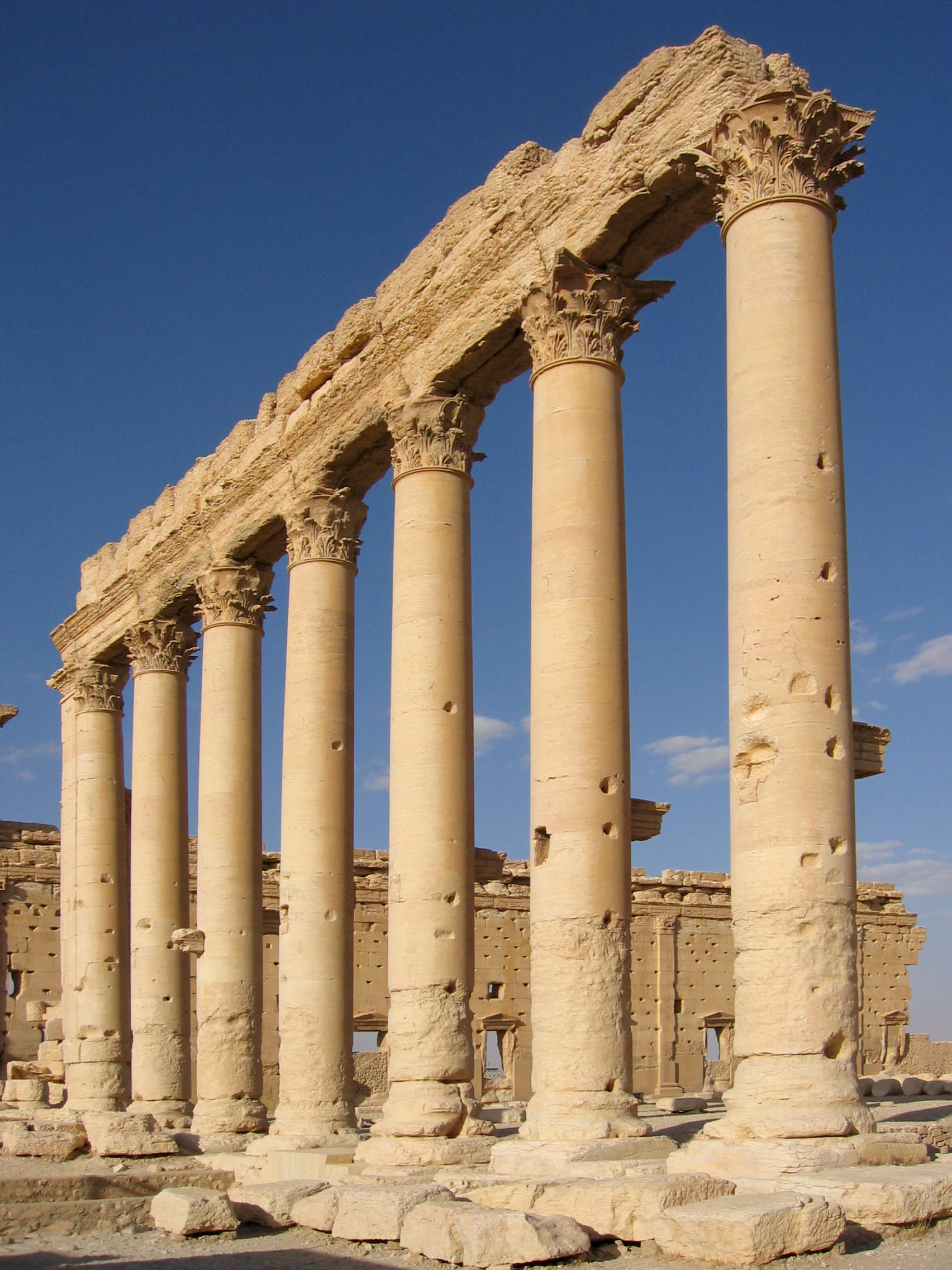 Columns in the inner court of the Temple of Baal in Palmyra, Syria.